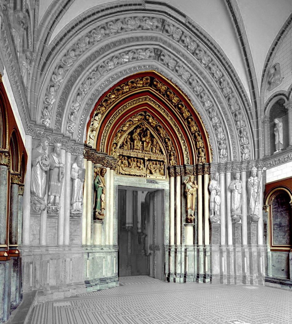 Basilica of Saint Servatius, Maastricht, the Netherlands. View of the South Portal ("Bergportaal"), an early-Gothic sculpted church portal, considered the earliest expression of Gothic art in the Netherlands. The coloured parts indicate the earliest phase (1170-1180); the rest of the sculpture dates from 1200-1215. This is an edited version of a photograph uploaded by Rijksdienst voor het Cultureel Erfgoed on 17 January 2013. Alterations by Kleon3.